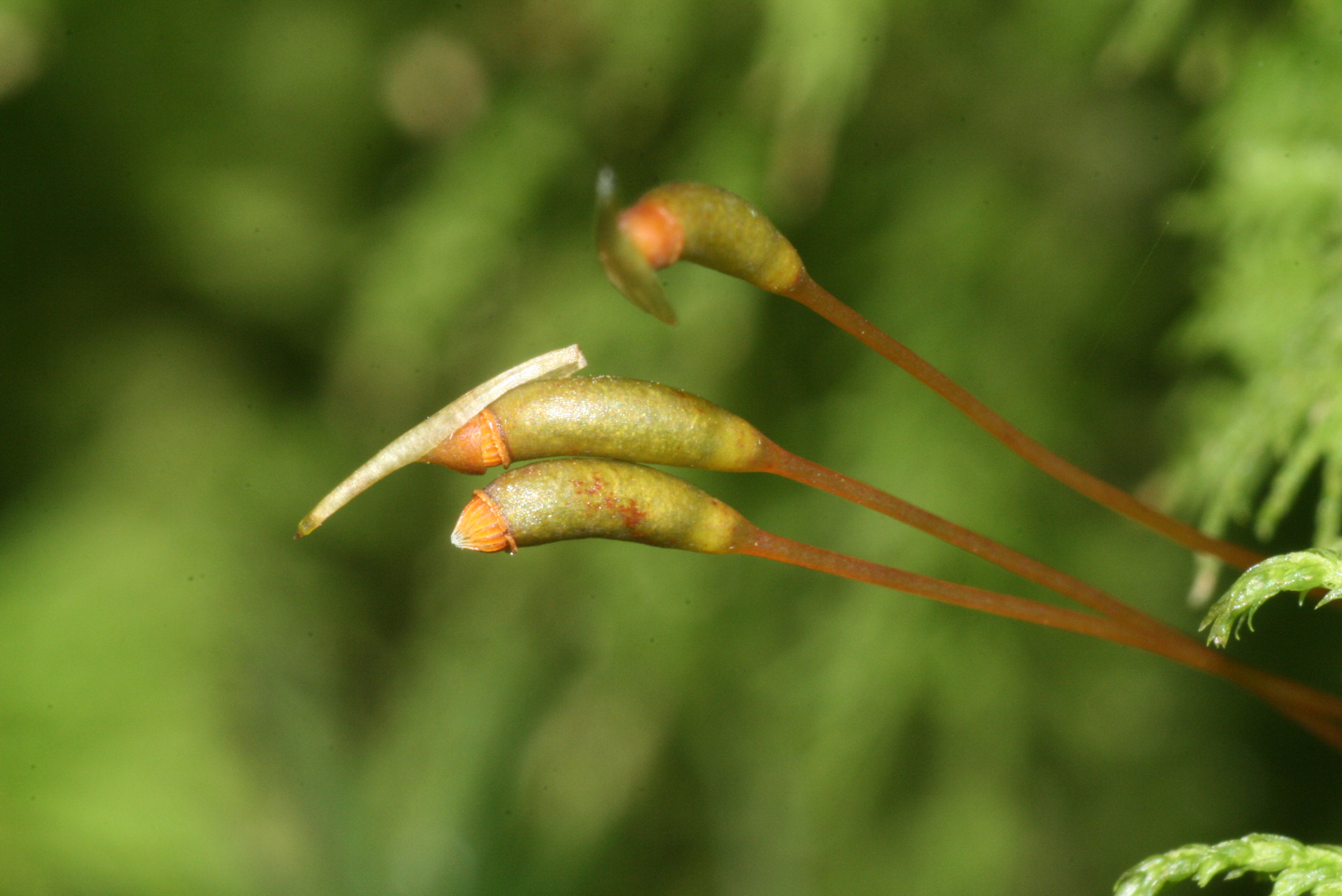 Thuidium delicatulum